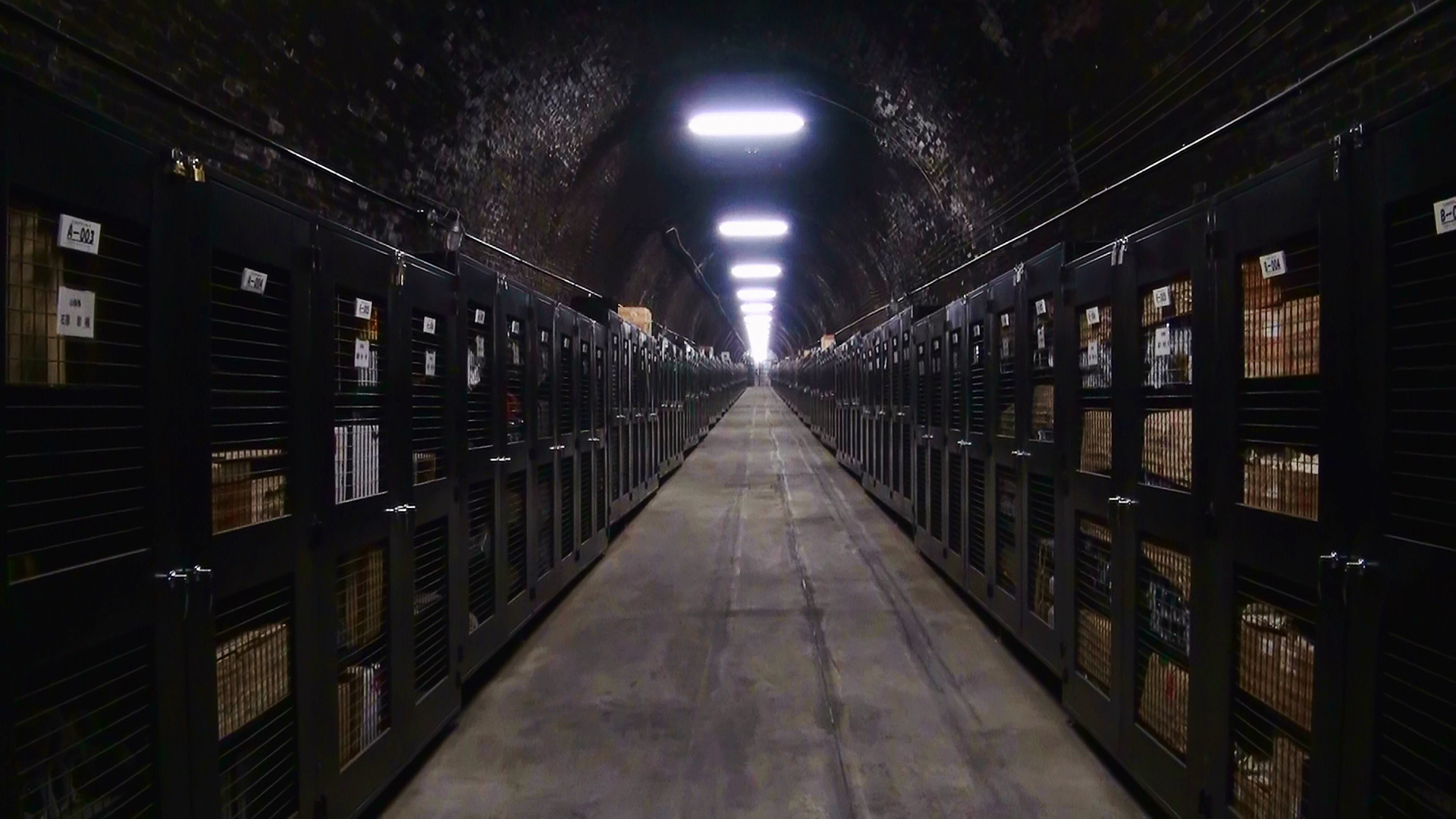 Fukasawa tunnel wine cellars